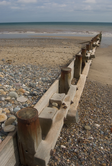 Groyne at Hornsea, East Riding of Yorkshire, England.One of the more northerly of the groynes on North Cliff Beach.